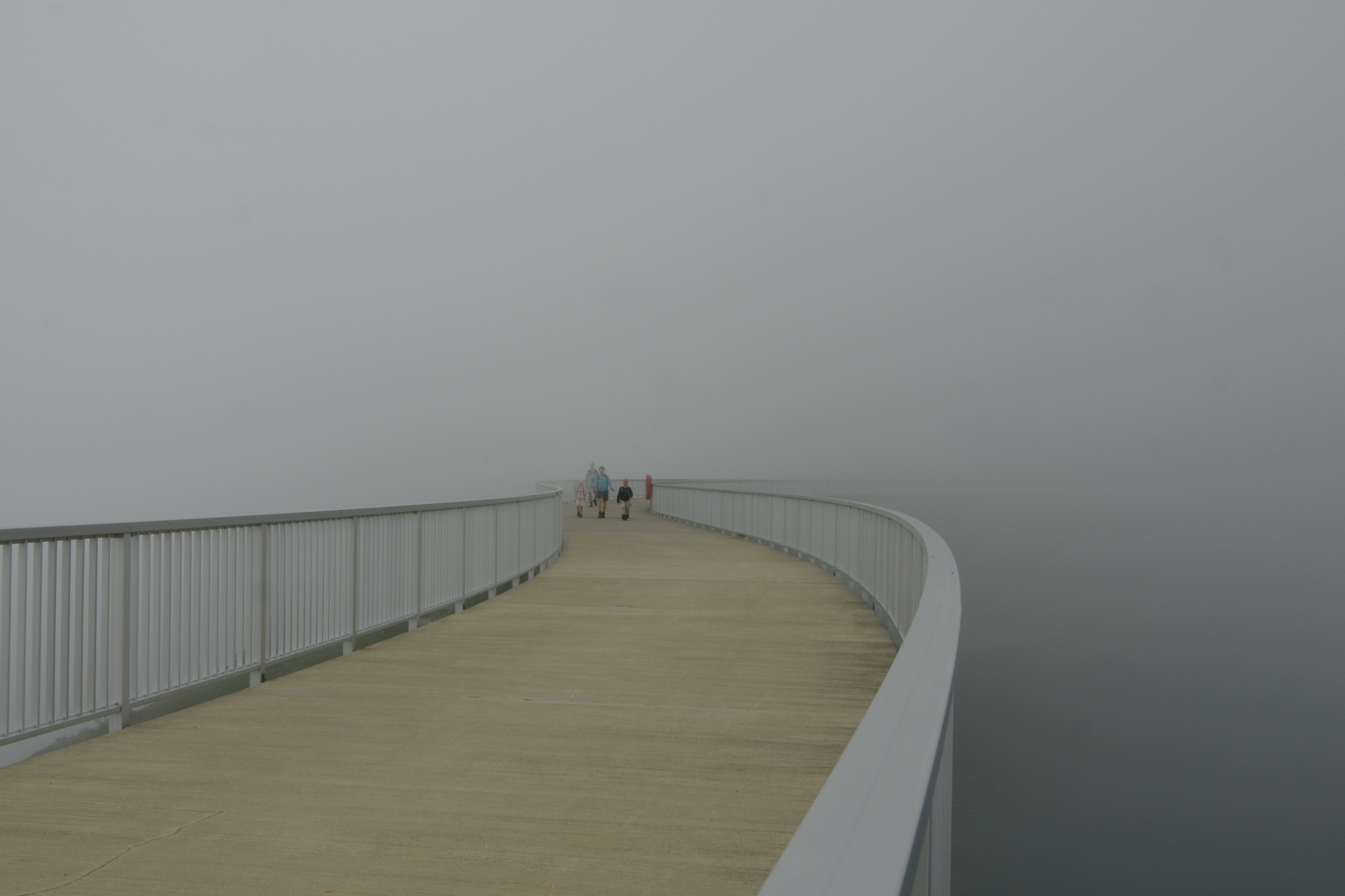 Walkers on the Staudammkrone dam at Lüner Lake, Austria.